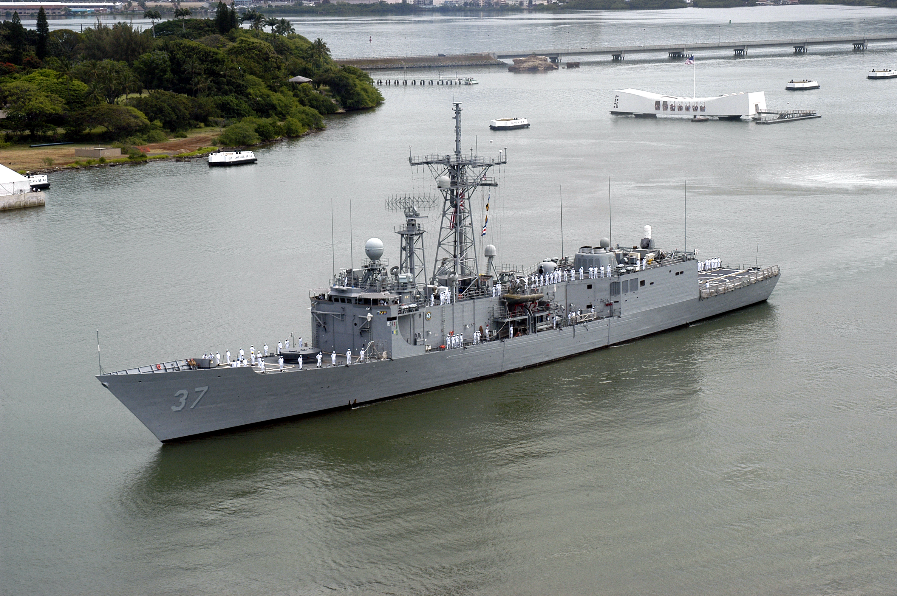 Pearl Harbor, Hawaii (File Photo) - U.S. Navy guided missile frigate USS Crommelin (FFG-37) passing the USS Arizona memorial in Pearl Harbor. Sailors assigned to the guided missile frigate USS Crommelin (FFG 37), seized 525 bales of cocaine this week during an interdiction in the Eastern Pacific. Crommelin, working with U.S. Coast Guard Law Enforcement Detachment (LEDET) 105, and embarked Helicopter Anti-Submarine Squadron Light Three Seven (HSL-37), conducted what turns out to be the third largest drug interdiction in history, totaling 25,000 pounds of narcotics. Six days earlier, the guided missile frigate USS Curts (FFG 38) conducted a similar operation interdicting 30,000 pounds of cocaine, the largest drug seizure to date. U.S. Navy photo by Operations Specialist 2nd Class Eric Weber (RELEASED)